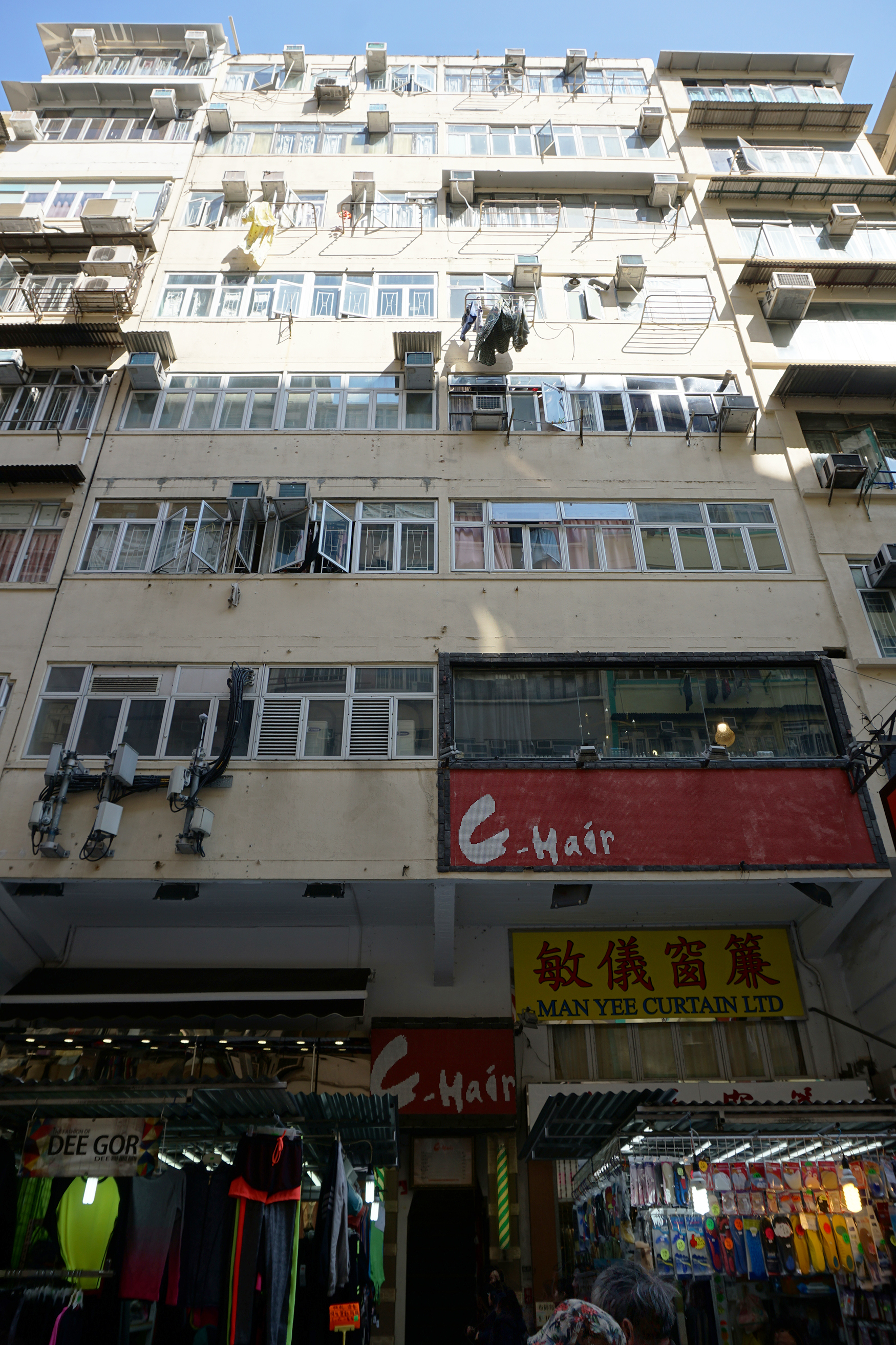 192-194 Fa Yuen Street in Prince Edward, Hong Kong.